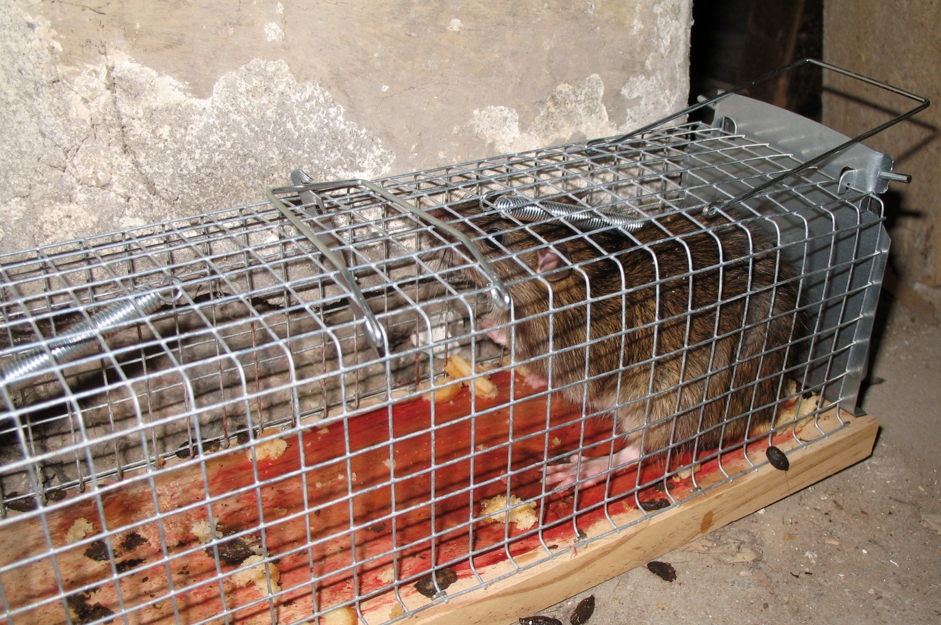 Rat trapped in a live-catch cage rat trap